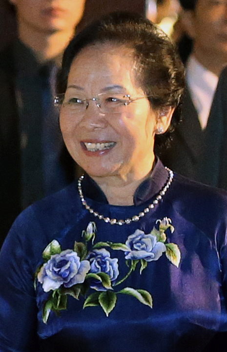 Hanbok-Ao Dai Fashion Show President Park Geun-hye and Vice President of Vietnam Nguyen Thi Doan attend ‘Hanbok-Ao Dai Fashion Show’ 2013.09.08 Hanoi, Vietnam Related Article -English- President promotes Korea-Vietnam cultural exchanges -中文- 朴槿惠访问越南 韩服与奥戴的美丽同行 -German- Präsidentin leistet Beitrag zur Förderung des koreanisch-vietnamesischen Kulturaustausches -Russian- Президент расширяет рамки культурного обмена между Кореей и Вьетнамом Ministry of Culture, Sports and Tourism Korean Culture and Information Service ( JEON HAN 한복-아오자이 패션쇼 베트남 국빈방문 중인 박근혜 대통령이 8일(현지시간) 응웬 티 조안 베트남 부주석과 함께 ‘한복과 아오자이 패션쇼’가 열린 에 입장하고 있다. 문화체육관광부 해외문화홍보원 코리아넷 전한